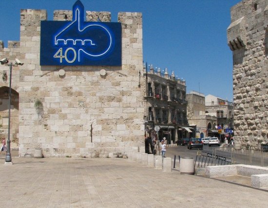 Logo of the 40th anniversary of the unification of Jerusalem, Jaffa Gate, Jerusalem.